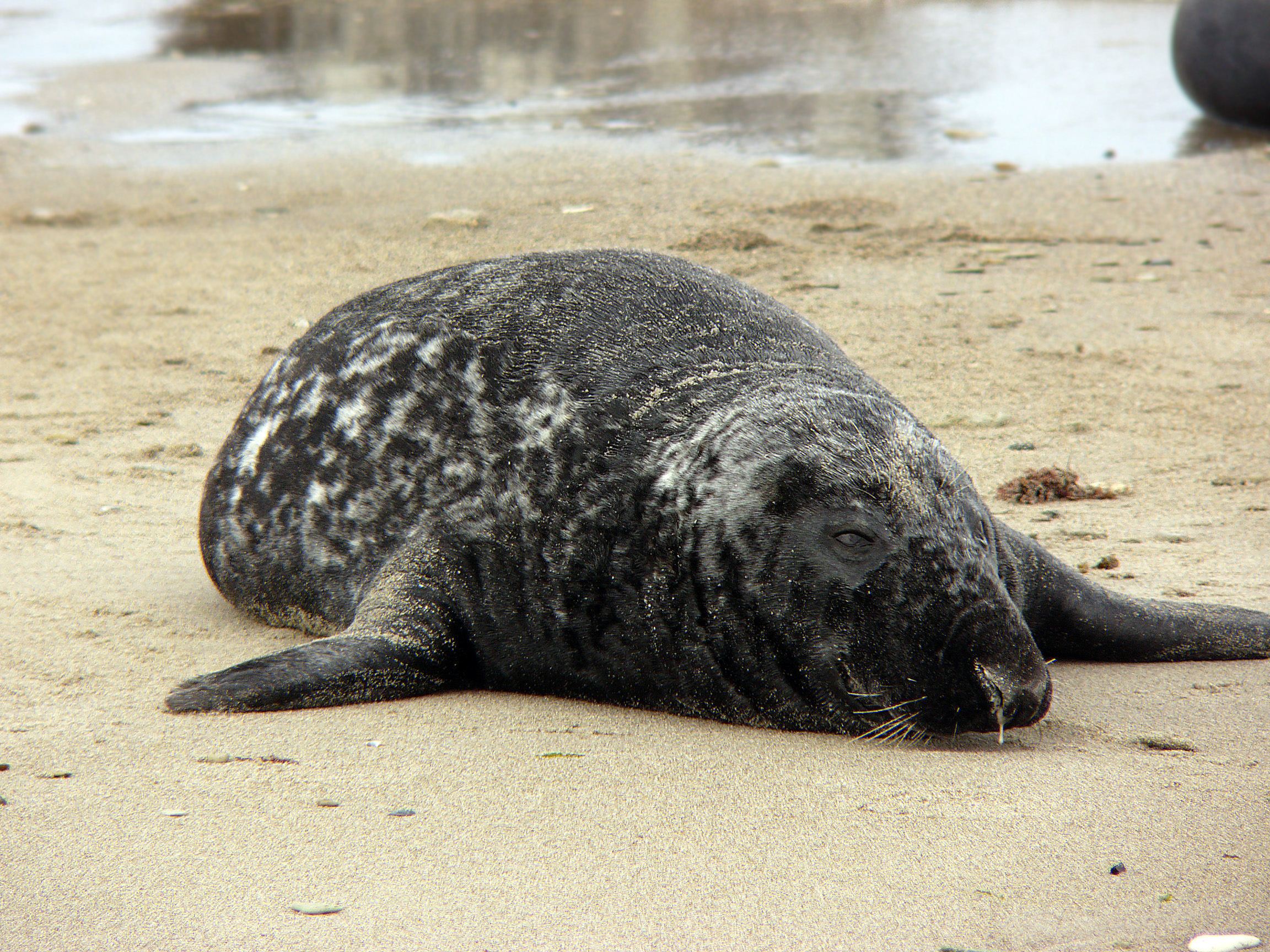 Grey Seal